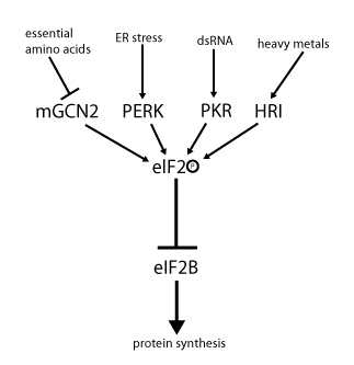 Regulation of elF2